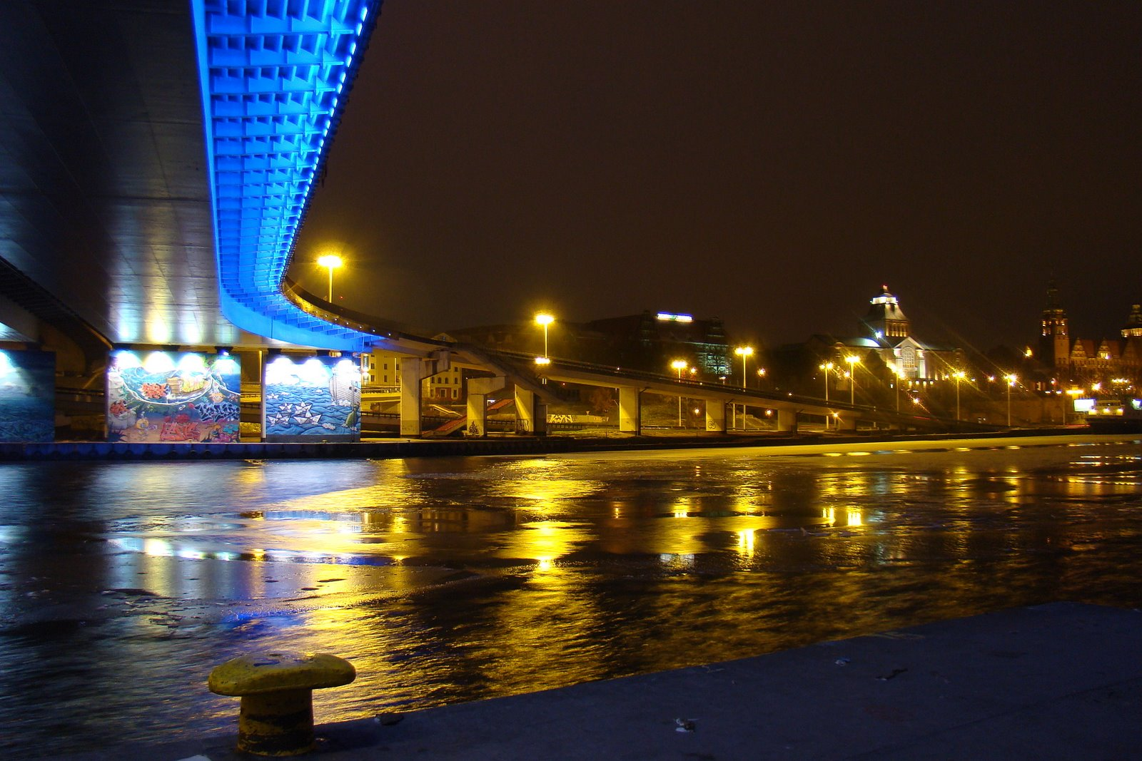 kolaż